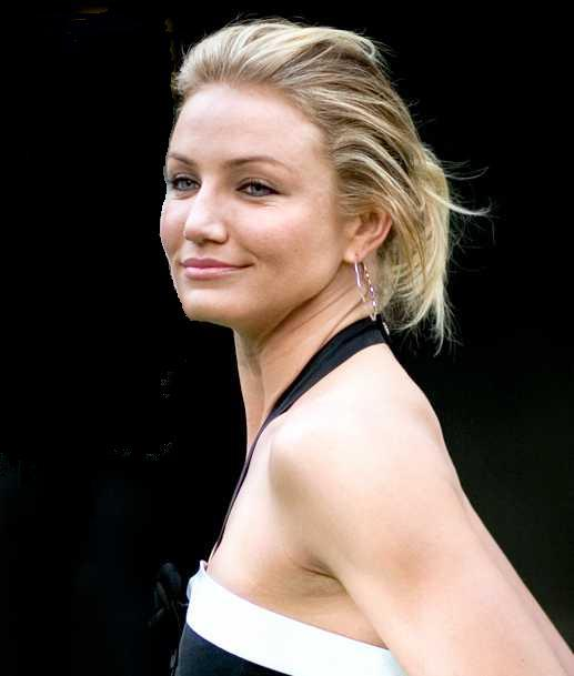 Cameron Diaz at the Shrek the Third London premiere (touch up)